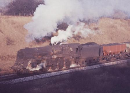 BR Crosti-boilered 9F 92022 at Gatley, Cheshire